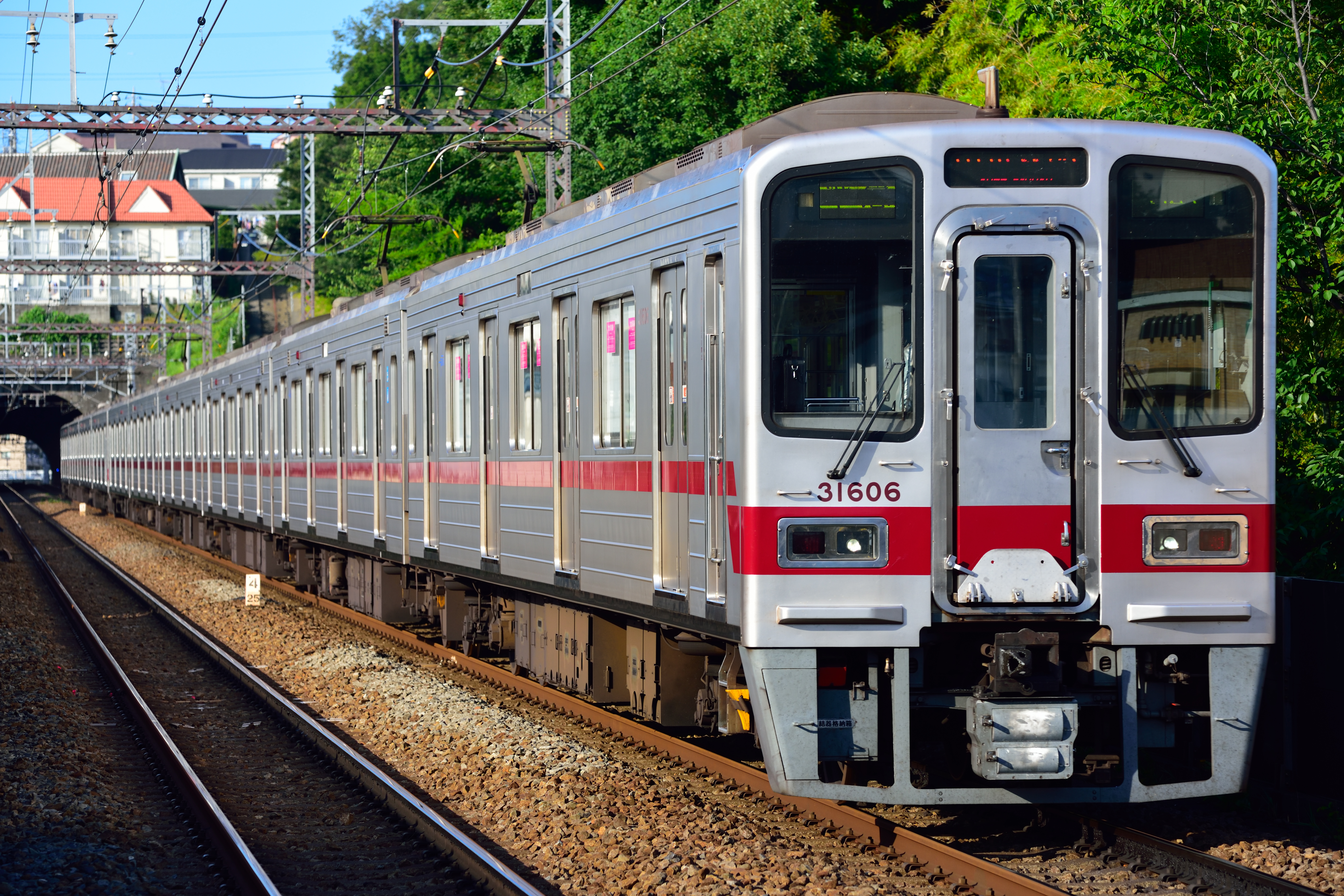 Tobu Railway 30000 series six-car EMU set 31606 leading a 10-car formation near Tana Station on the Tokyu Denentoshi Line in Japan